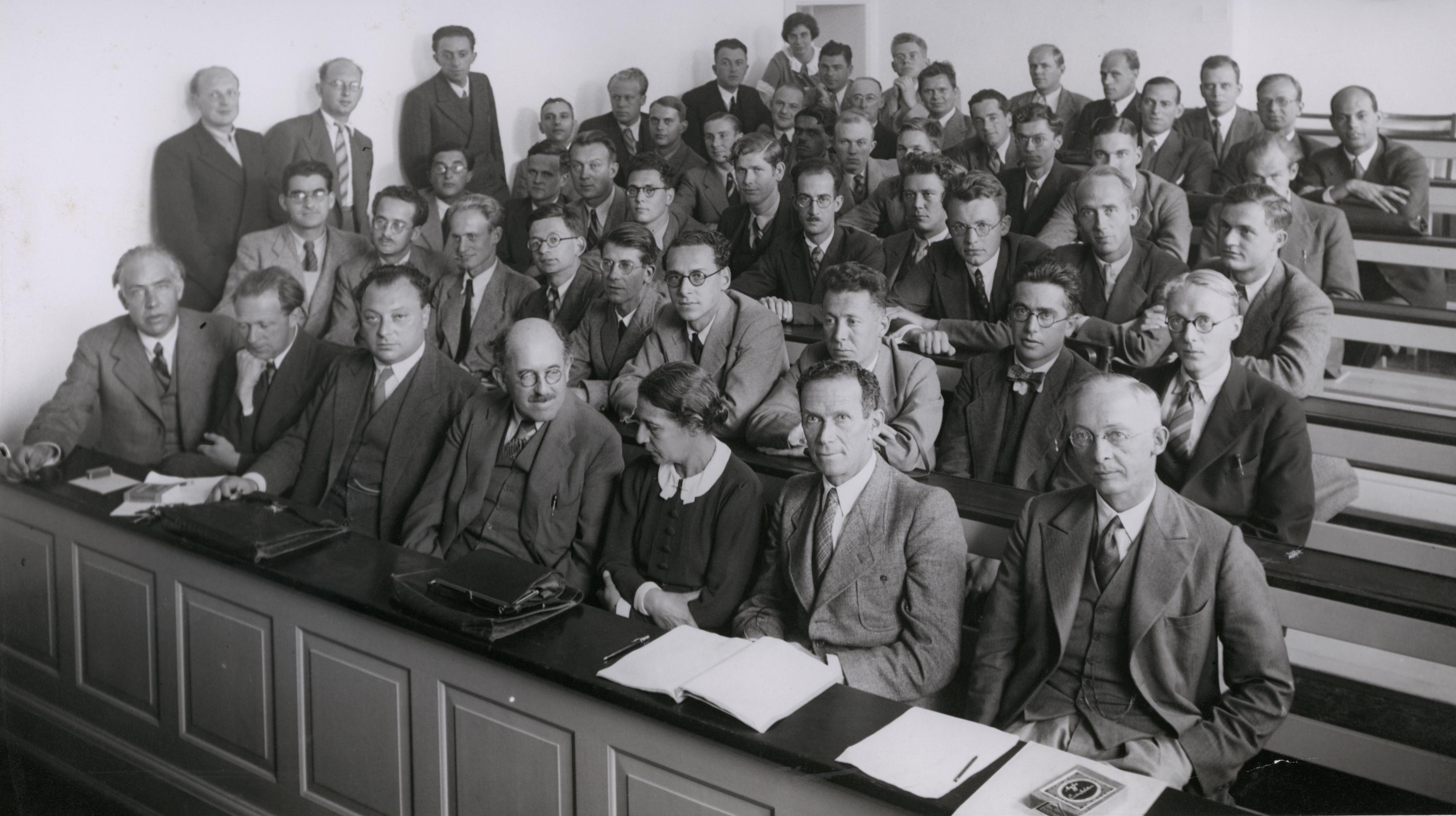 Bohr Heisenberg Pauli Meitner u.a. 1937 (cropped)